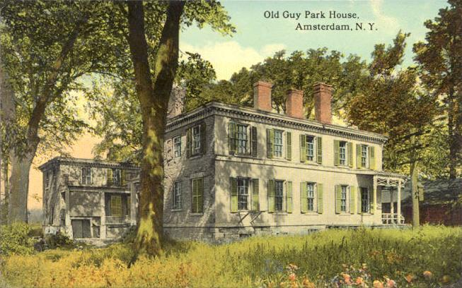 Guy Park, Amsterdam, New York. It was built in 1773 by Guy Johnson.